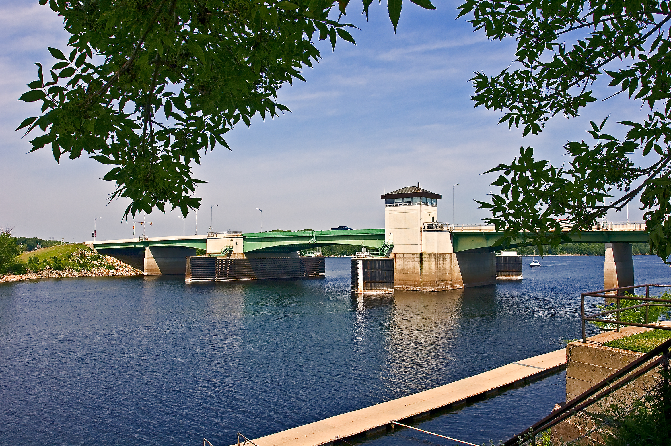 The current Prescott Bridge is a double-leaf bascule bridge built in 1990 and carrying U.S. Route 10 and spanning the St. Croix River between Prescott, Wisconsin, and Point Douglas, Minnesota. It replaced a 1923 vertical-lift bridge on the same site.